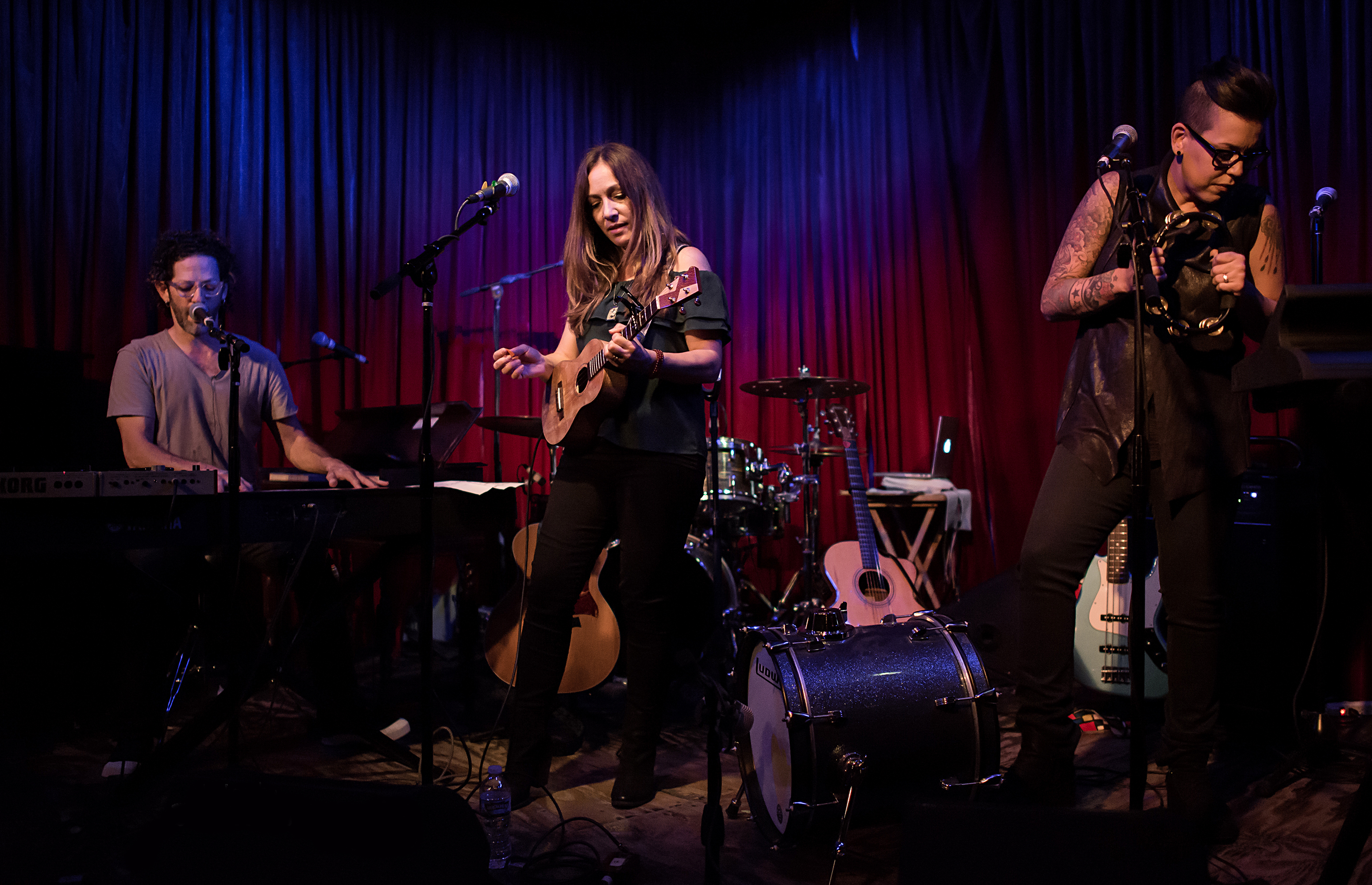 The Rescues at the Hotel Cafe